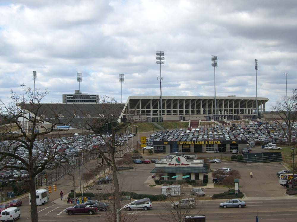 Veterans Memorial Stadium in Jackson, Mississippi. Author Joe Furr (myself) Author releases rights for use on Wikipedia.